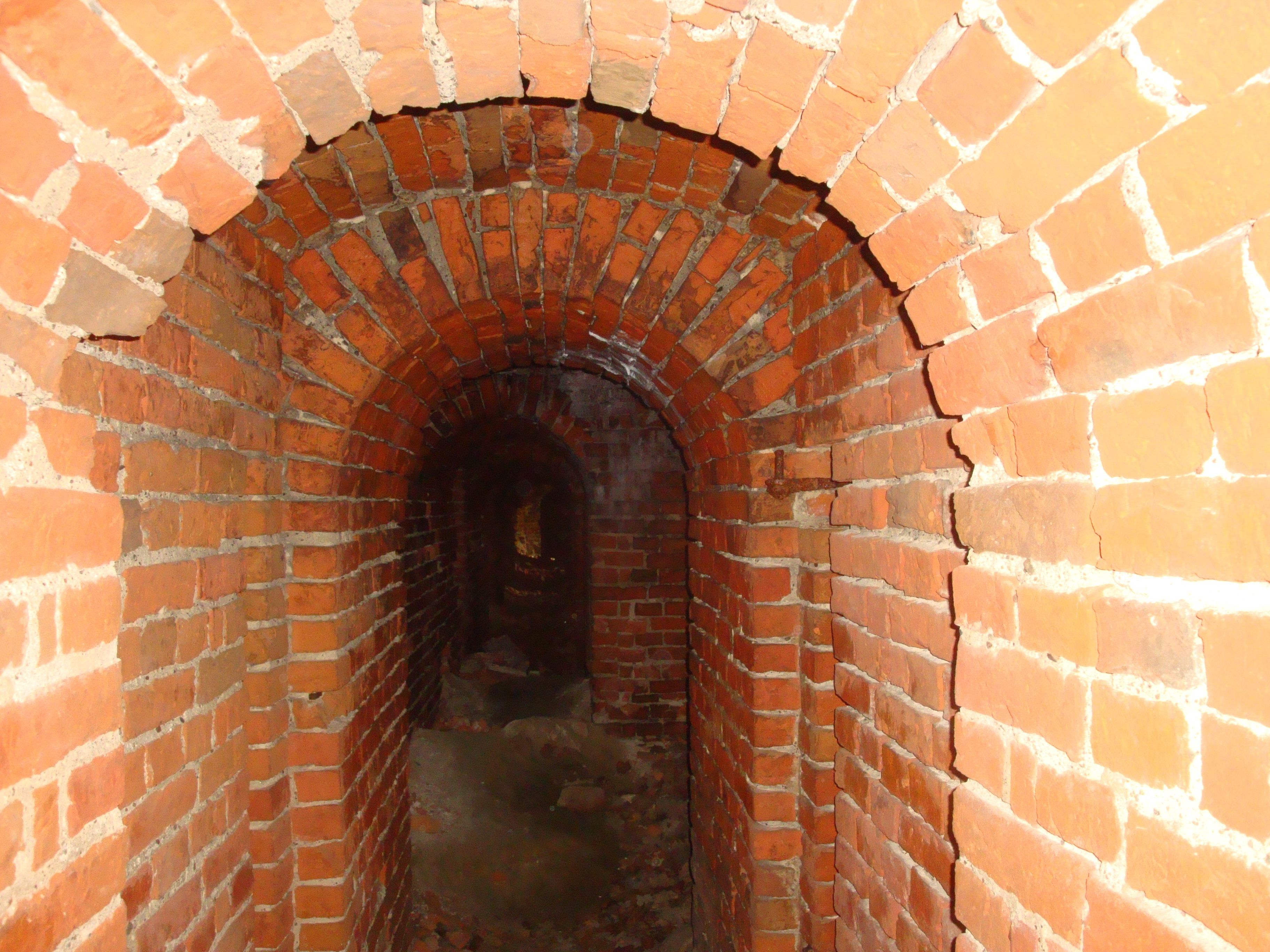 Hornwork of Grudziądz fortress, Poland.